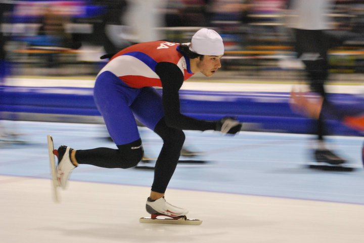 Benjamin Macé in Heerenveen